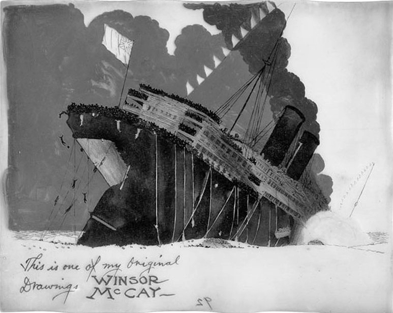 Signed cel from The Sinking of the Lusitania by Winsor McCay, registered for copyright on July 19, 1918.